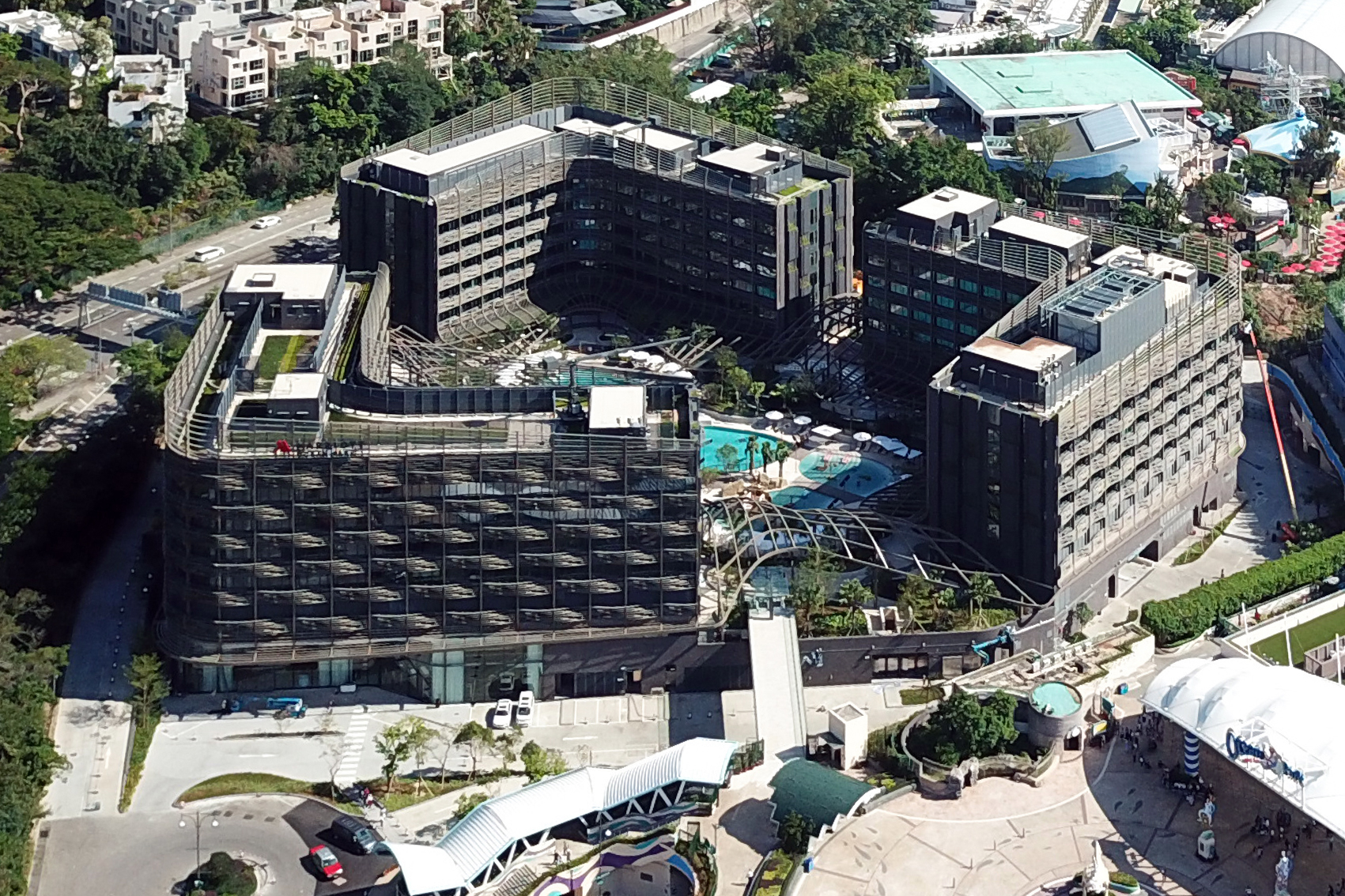 Ocean Park Marriott Hotel